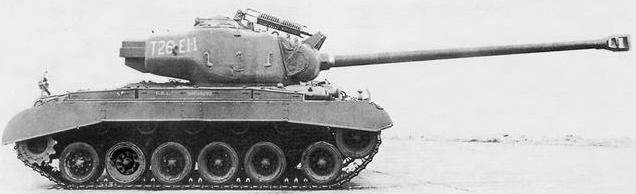 The so called "Super Pershing" before extra armor welded on. Note length of barrel, 70 calibres long, to compete with the 88mm KwK 43 L/71 gun of the Tiger II.